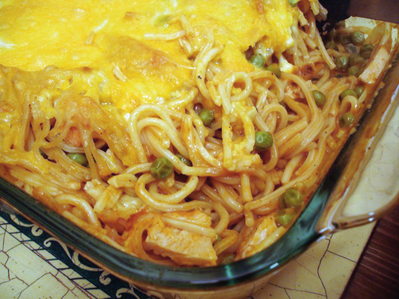 Tetrazzini is an American dish usually involving a non-red meat (often diced fowl or seafood), mushrooms, and almonds in a butter/cream and parmesan sauce flavored with wine or sherry and stock vegetables such as onions, celery, and carrots. It is often served hot over spaghetti or some similarly thin pasta, garnished with lemon or parsley, and topped with additional almonds and/or Parmesan cheese.